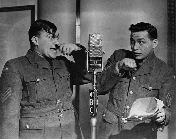 Title / Titre : Johnny Wayne and Frank Shuster performing in a CBC radio broadcast of The Army Show / Johnny Wayne et Frank Shuster, durant une représentation de The Army Show à la radio de la SRC Creator(s) / Créateur(s) : Department of National Defence / Ministère de la défense nationale Date(s) : January 21, 1944 / 21 janvier 1944 Reference No. / Numéro de référence : MIKAN 3191855 Location / Lieu : Ottawa, Ontario Credit / Mention de source : Canada. Department of National Defence. Library and Archives Canada, PA-152119 / Canada. Ministère de la défense nationale. Bibliothèque et Archives Canada, PA-152119